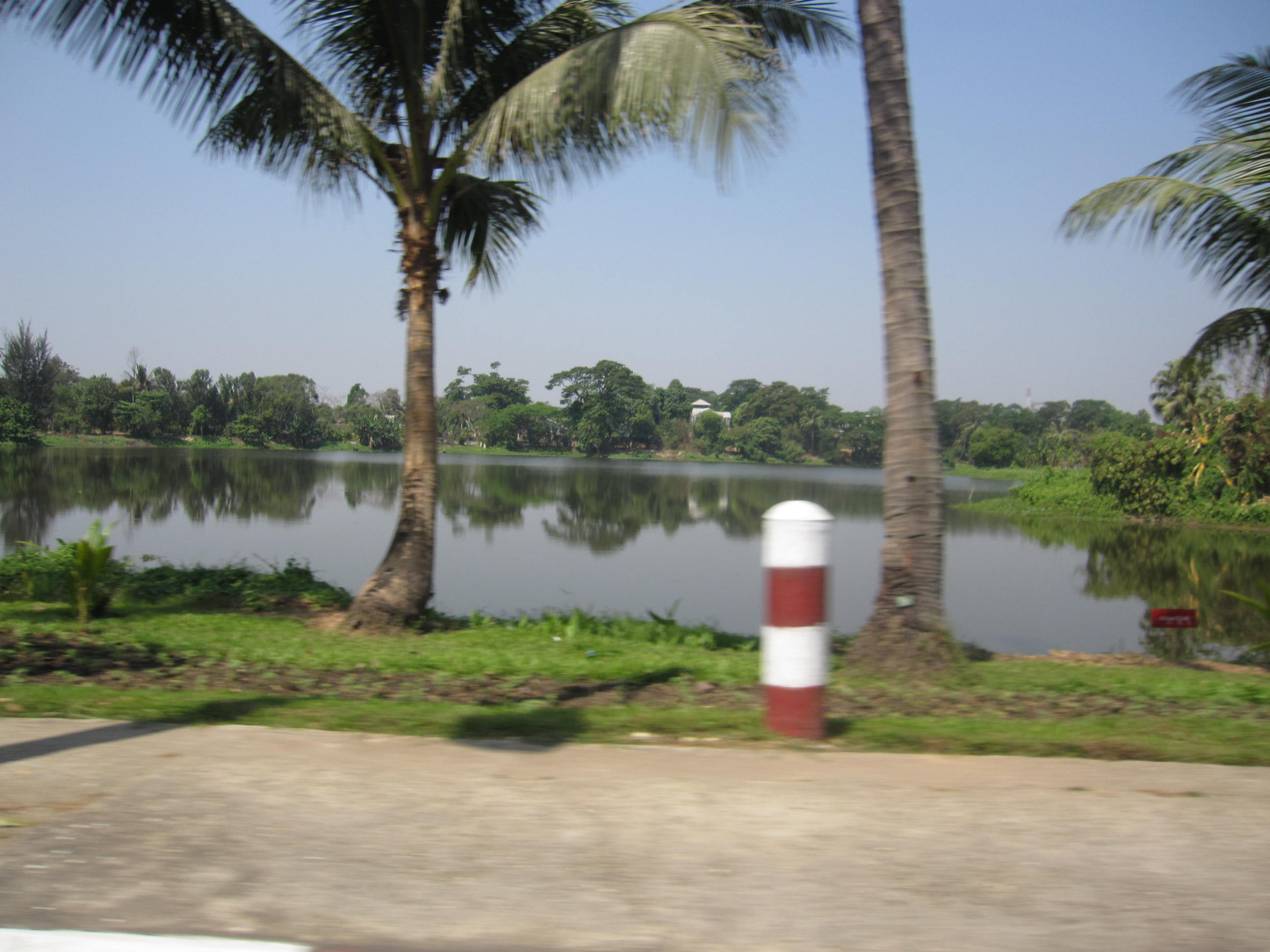 Inyale, Yangon, Burma